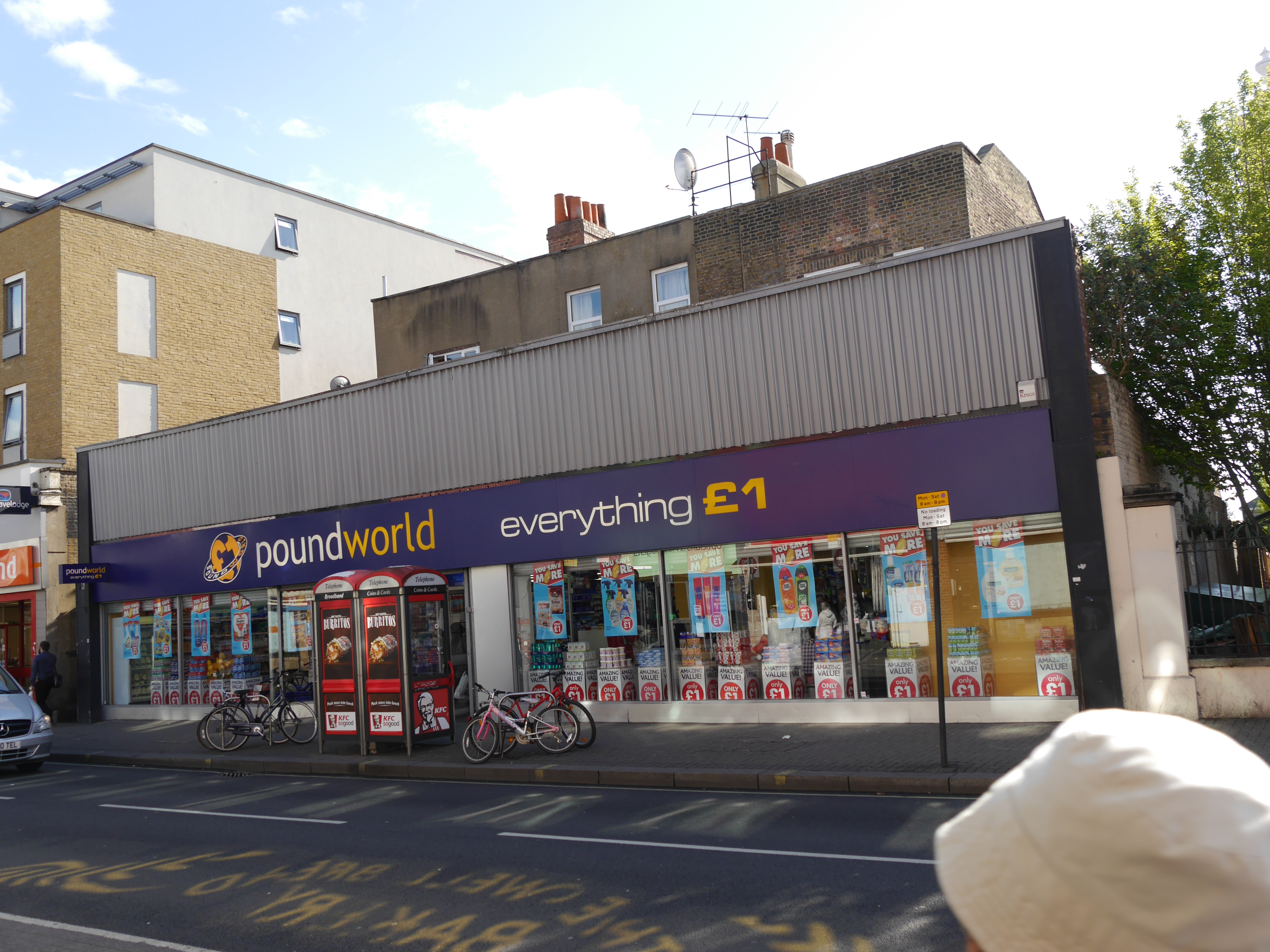 North End Road, Fulham, London